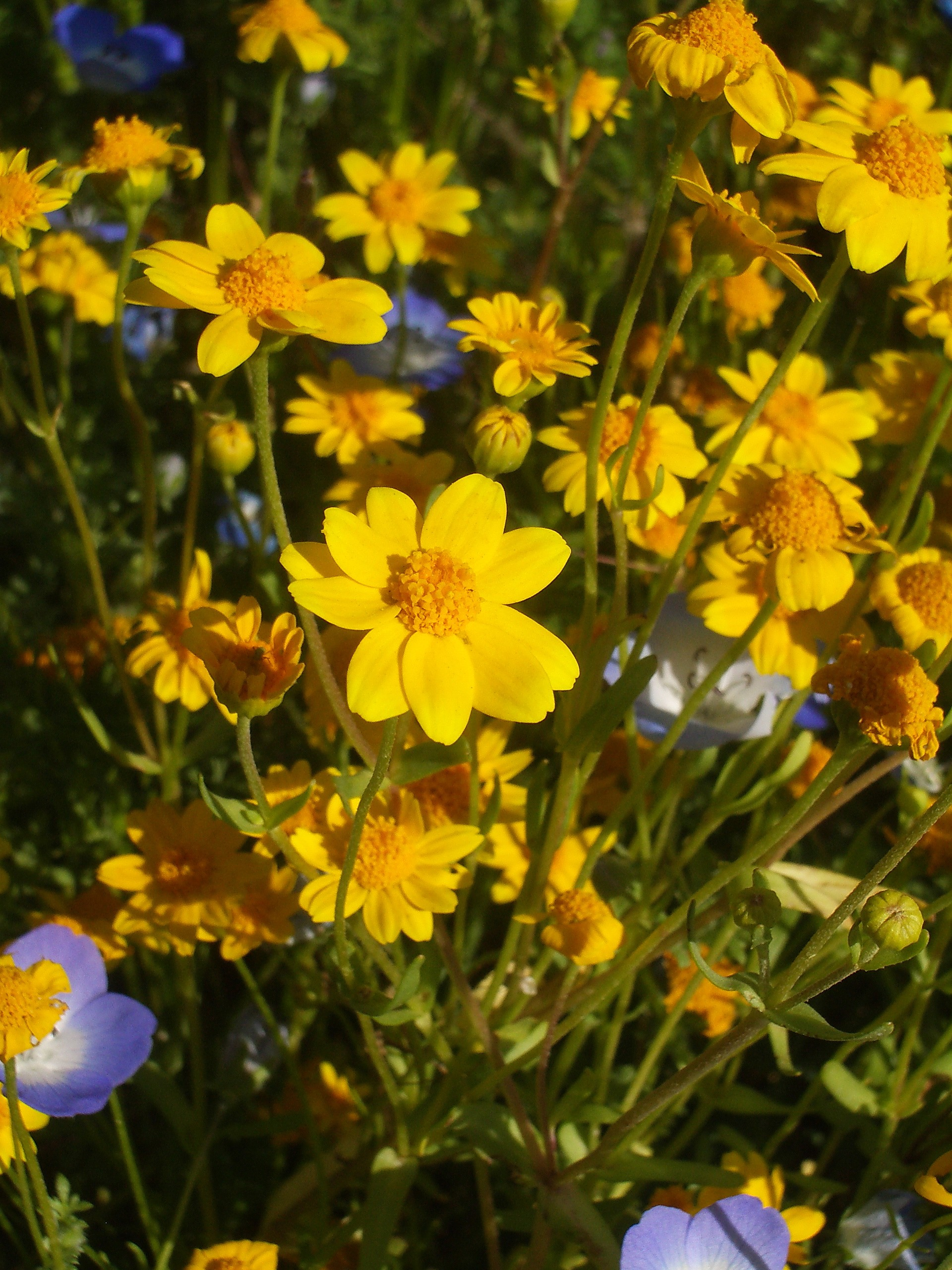 Photograph of Goldfields (Lasthensia glabrata)